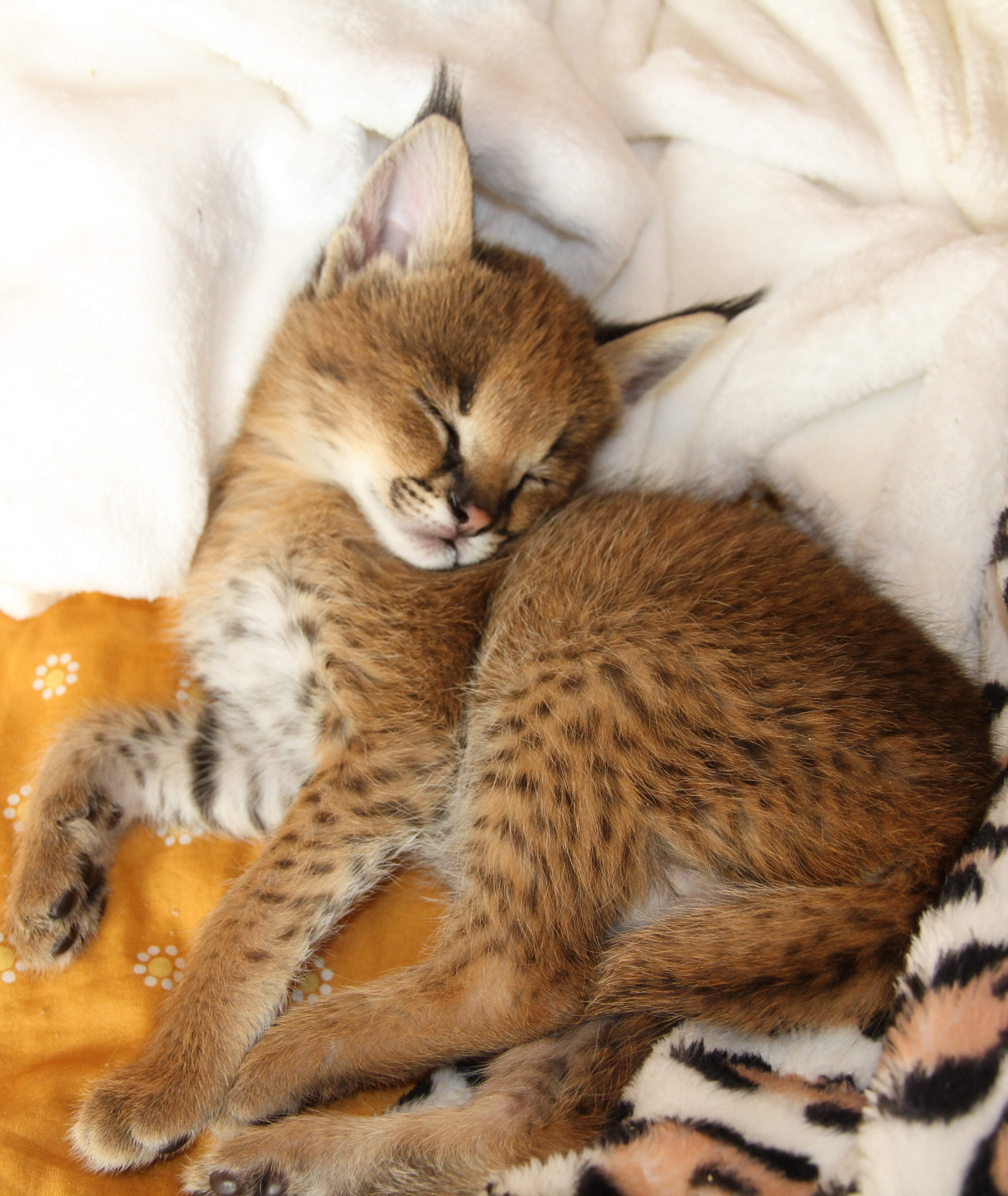 Caraval kitten